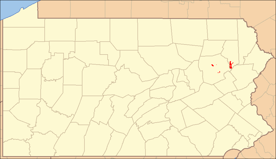 Locator Map of Lackawanna State Forest, Pennsylvania, United States